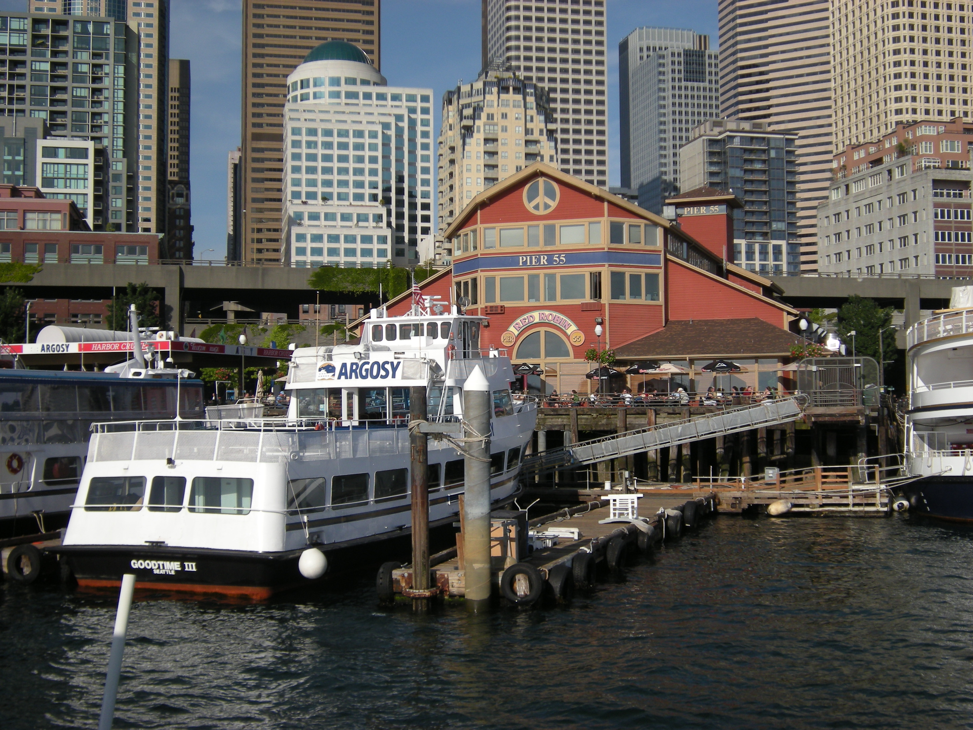 Pier 55, Seattle, Washington, photographed from the water.